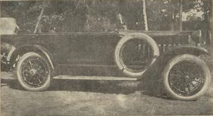 polsh car